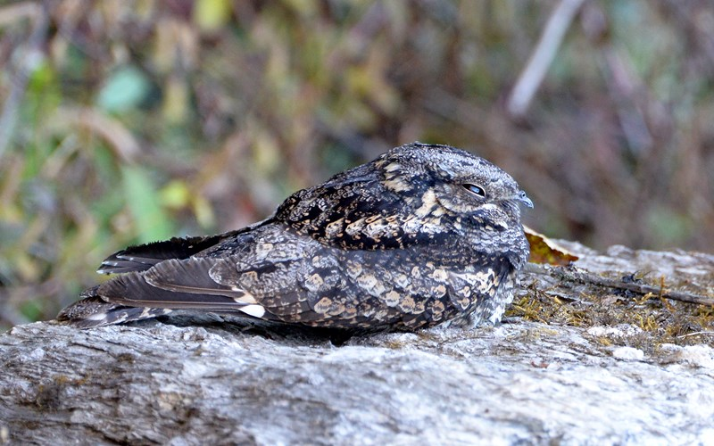 Grey Nightjar Caprimulgus jotaka hazarae at Eaglenest Wildlife Sanctuary, Arunachal Pradesh, India